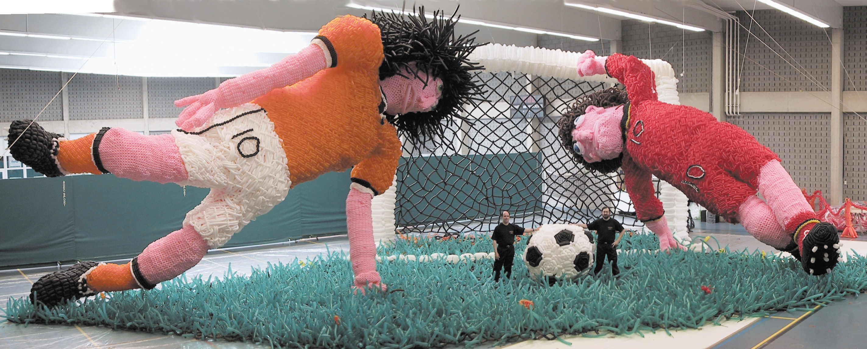 Largest non-round balloon sculpture in the world. This was created in Mol, Belgium by 45 artists under the direction of Larry Moss and Royal Sorell. Moss and Sorell appear in the photo.